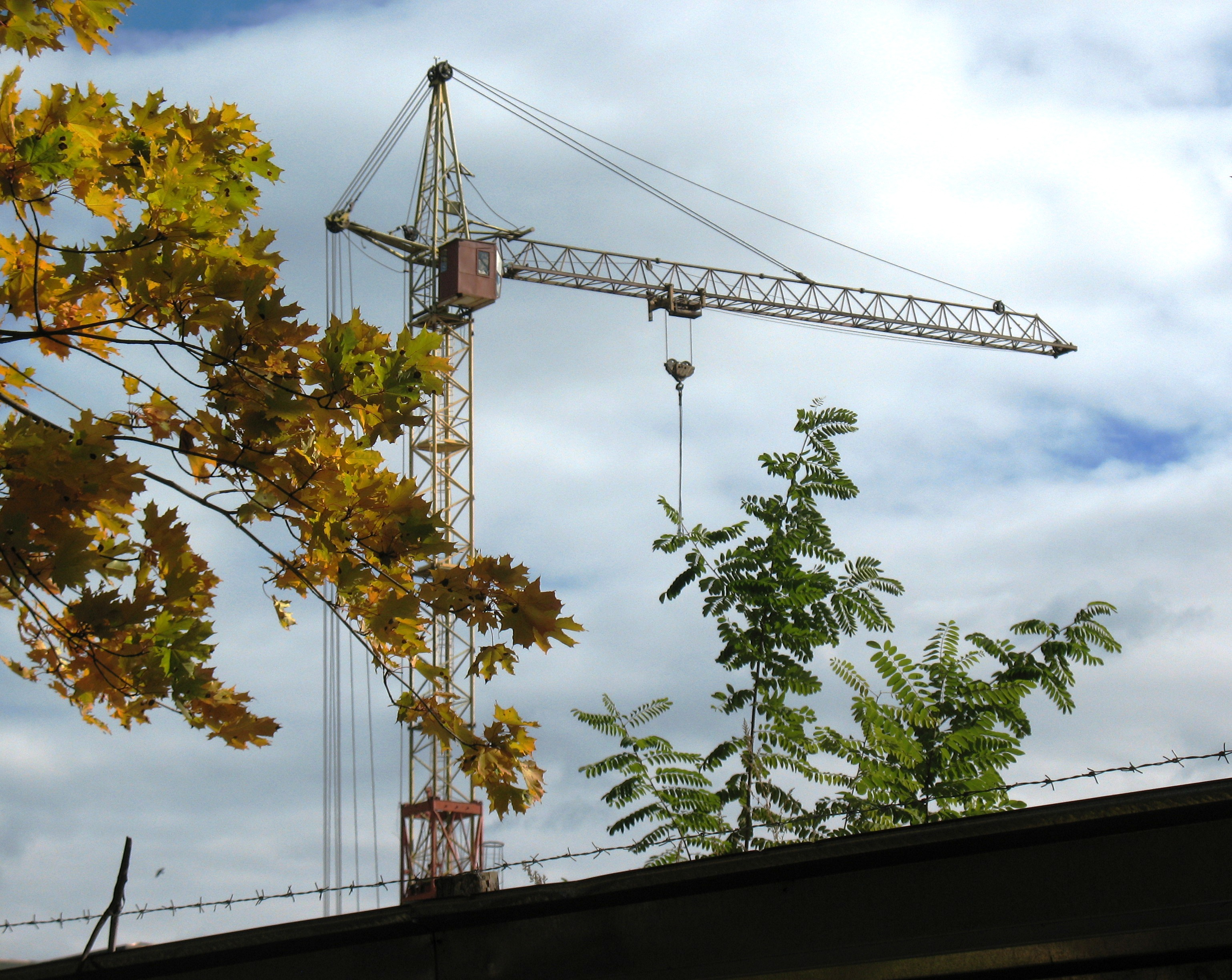 Crane, Acer platanoides (yellow) and Fabaceae (green) leaves in autumn. Kharkov City.